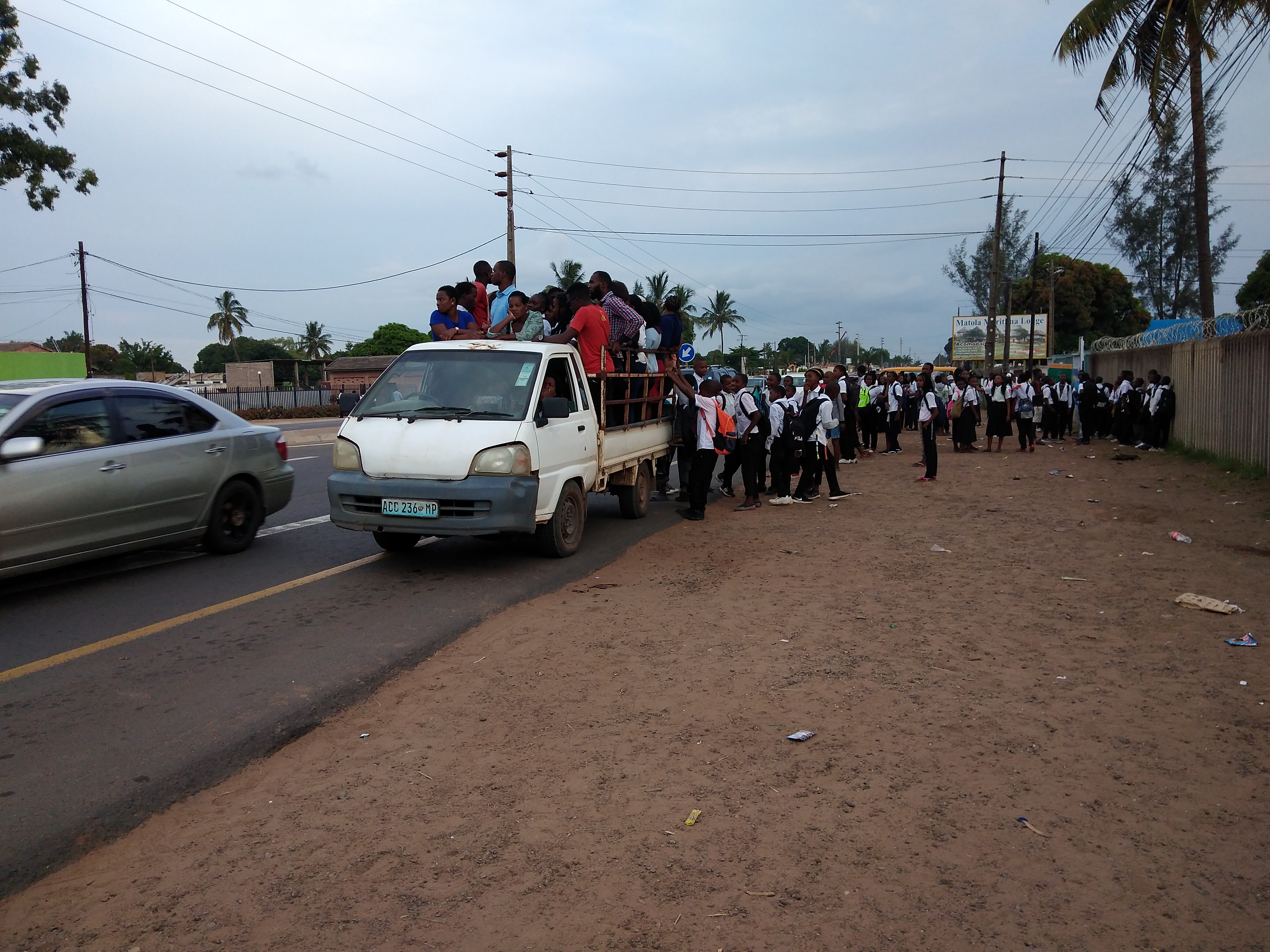 This is an image with the theme "Africa on the Move or Transport" from: Mozambique